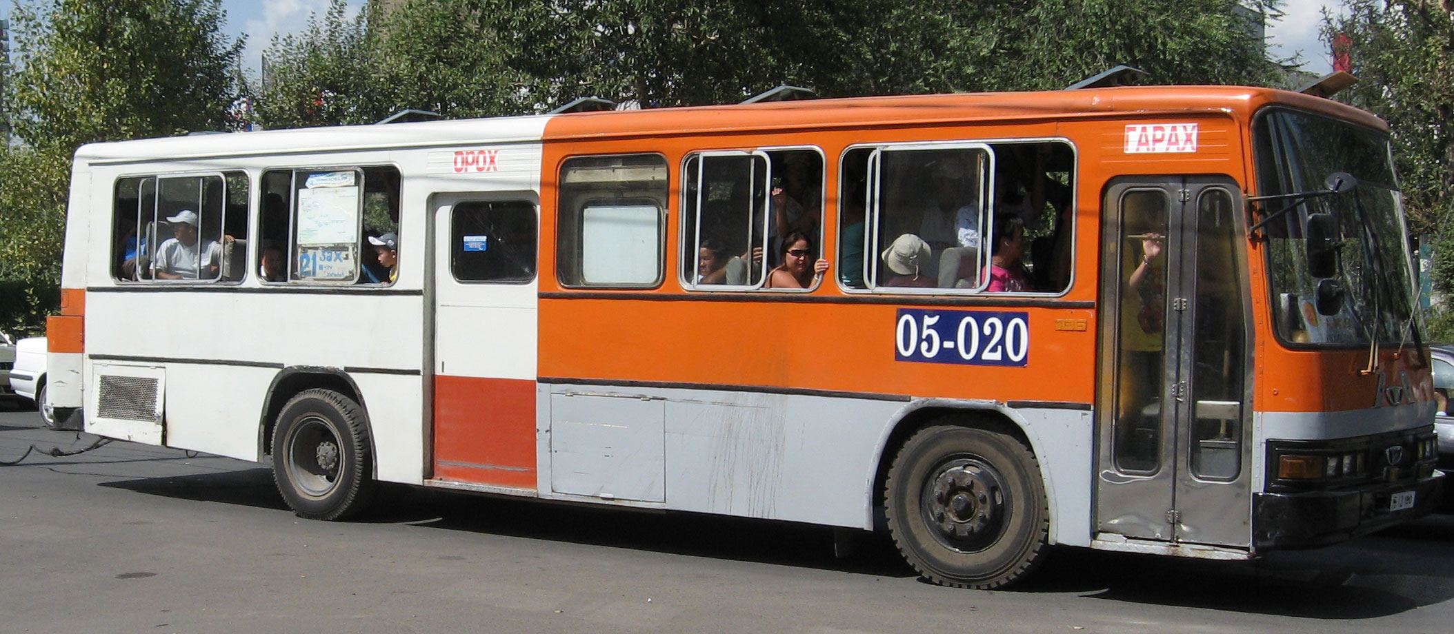 Bus in Ulaanbaatar, Mongolia. The cable in the back is there because the bus is about to tow a second one (just outside the pic).